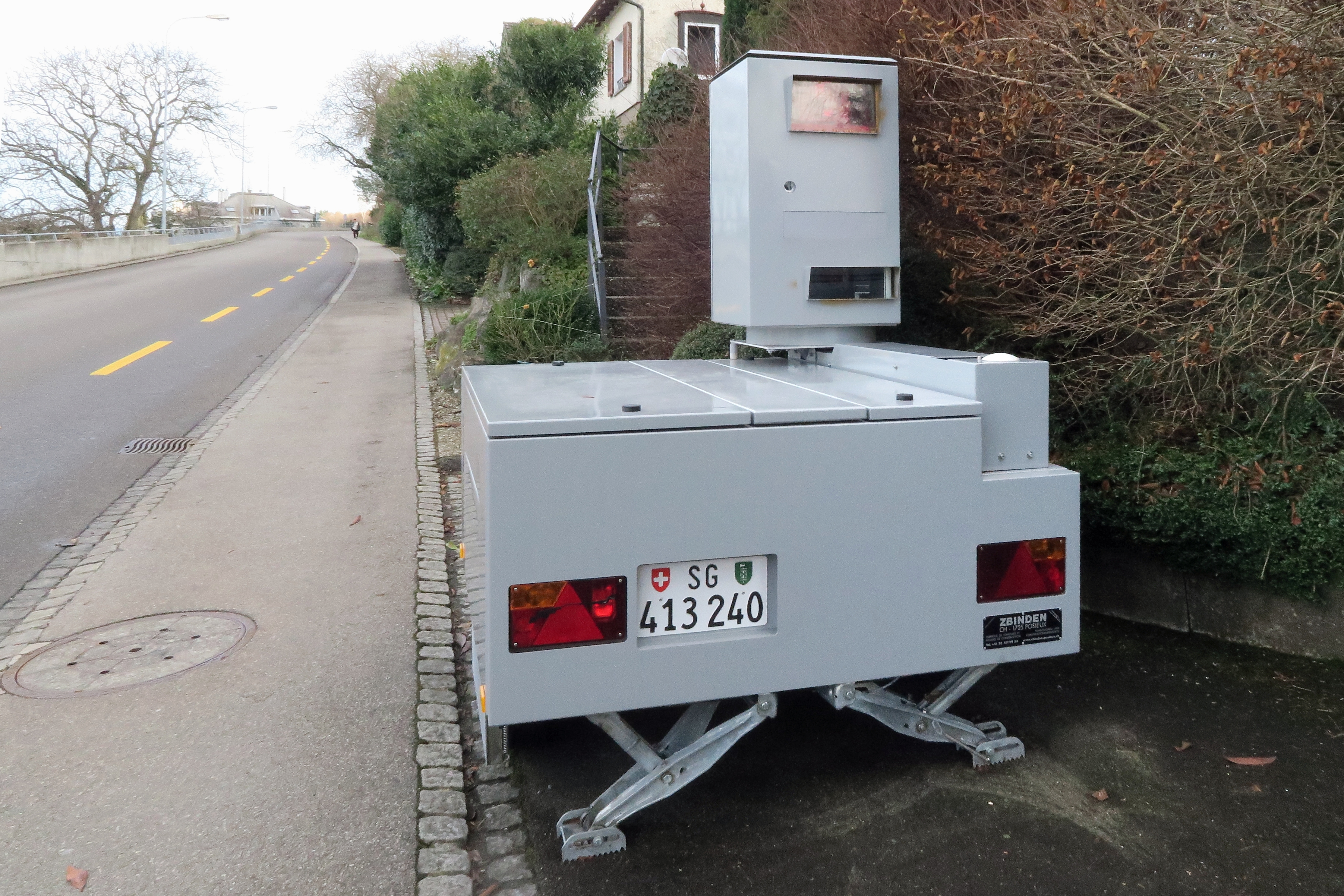 A wondrous proliferation of speed traps. These devices are currently popular. They are like gypsies on the move. Once you got used to them, they move on. This newer model is integrated into a trailer and works in both directions. The approximate locations are posted weekly by the police - without guarantee, as in the lottery. But there are at least about nine devices that circulate in the canton of St. Gallen at the same time. Staad, Switzerland, Jan 15, 2015.